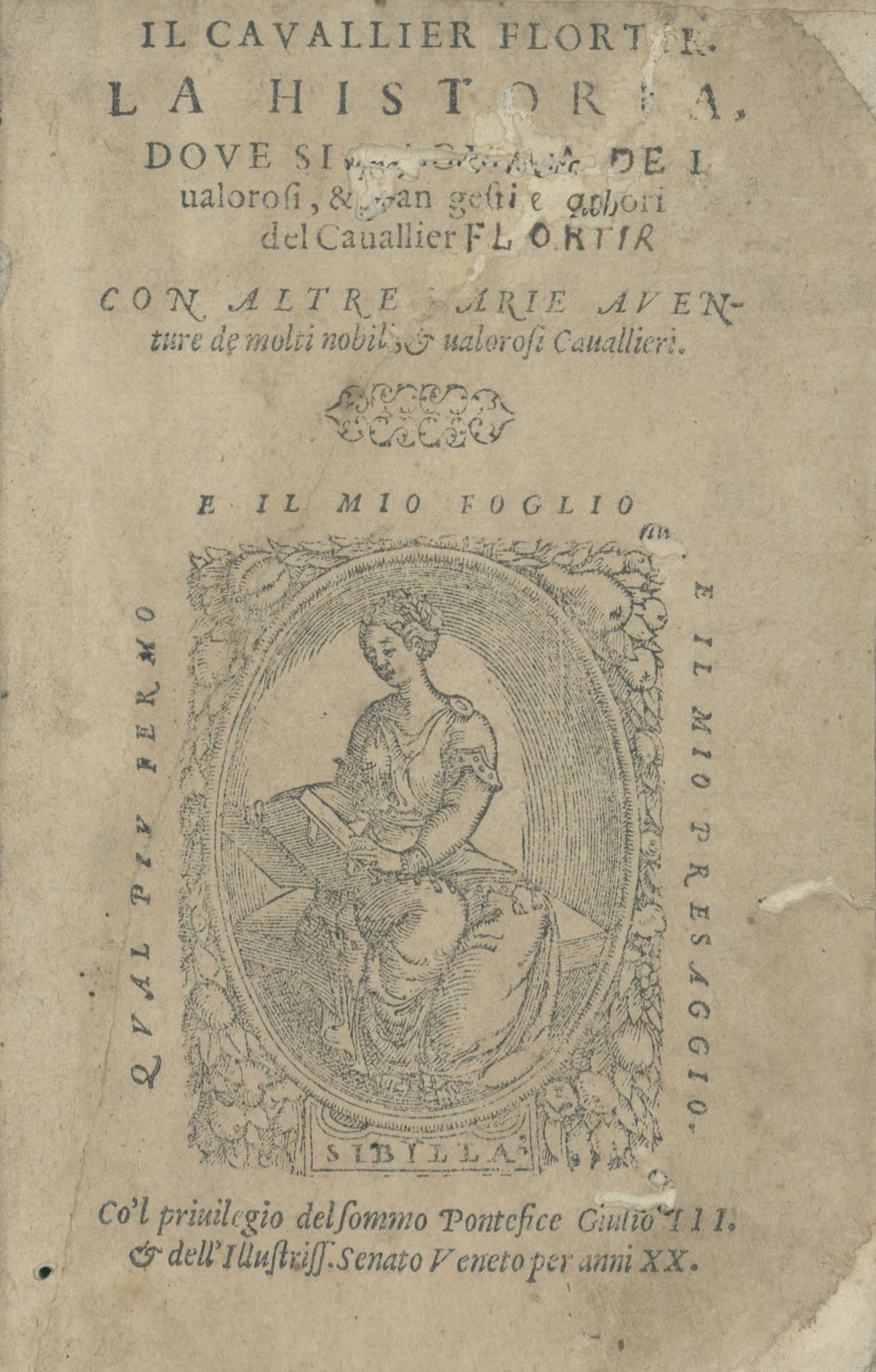 Frontispiece of "Flortir" (1554).